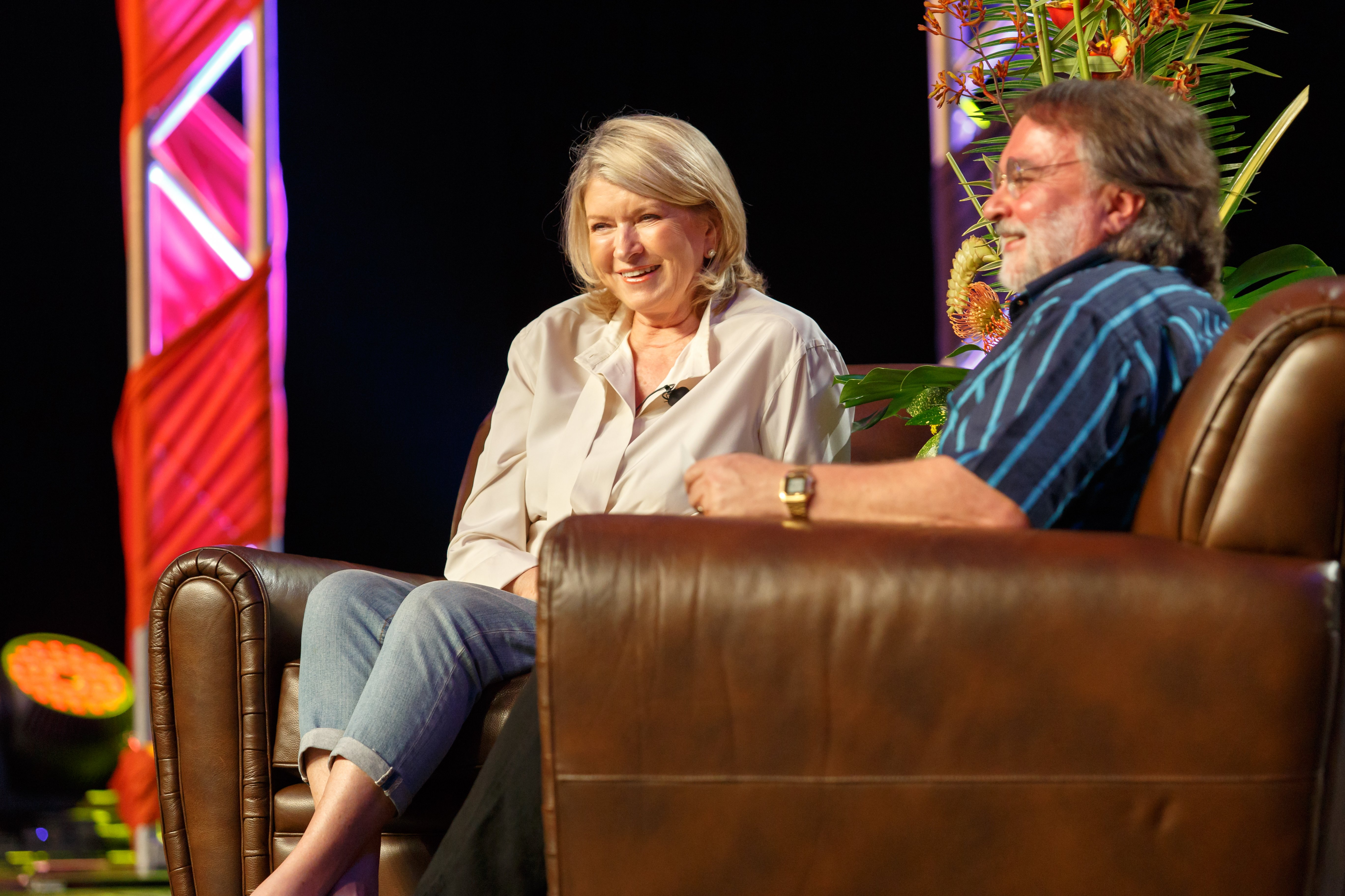 Entrepreneur and lifestyle icon Martha Stewart sat down with Jeff Morey for a one-on-one interview keynote at the 2014 IGC Show in Chicago, IL.